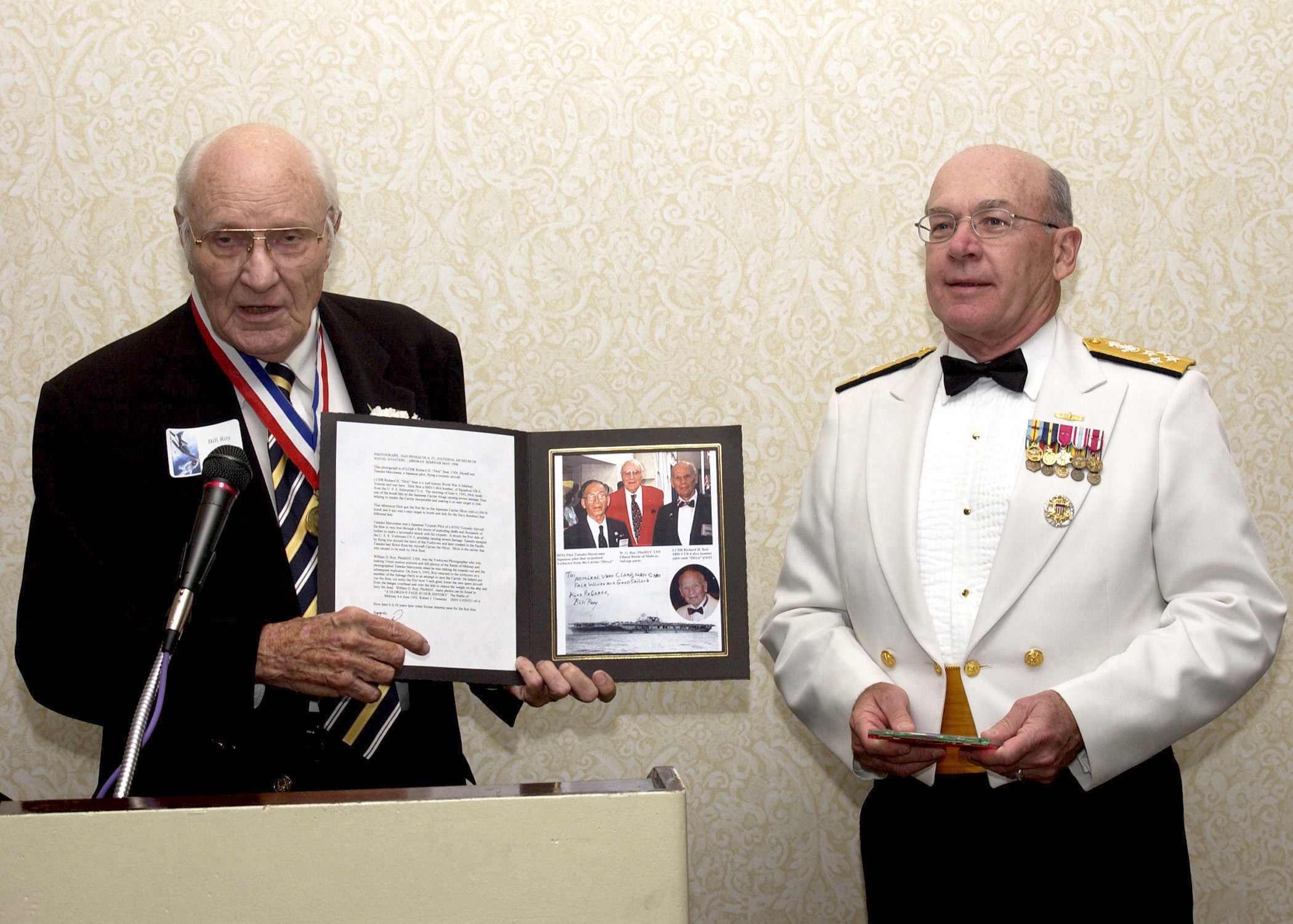 Jacksonville, Fla. (June 4, 2005) - Chief of Naval Operations (CNO) Admiral Vern Clark is presented an award by Battle of Midway veteran Bill Roy during the Battle of Midway's sixty third anniversary commemorative dinner held in Downtown Jacksonville. Admiral Clark was the guest speaker at this year's dinner. U.S. Navy photo by Photographer's Mate 3rd Class Clark Desire (RELEASED)